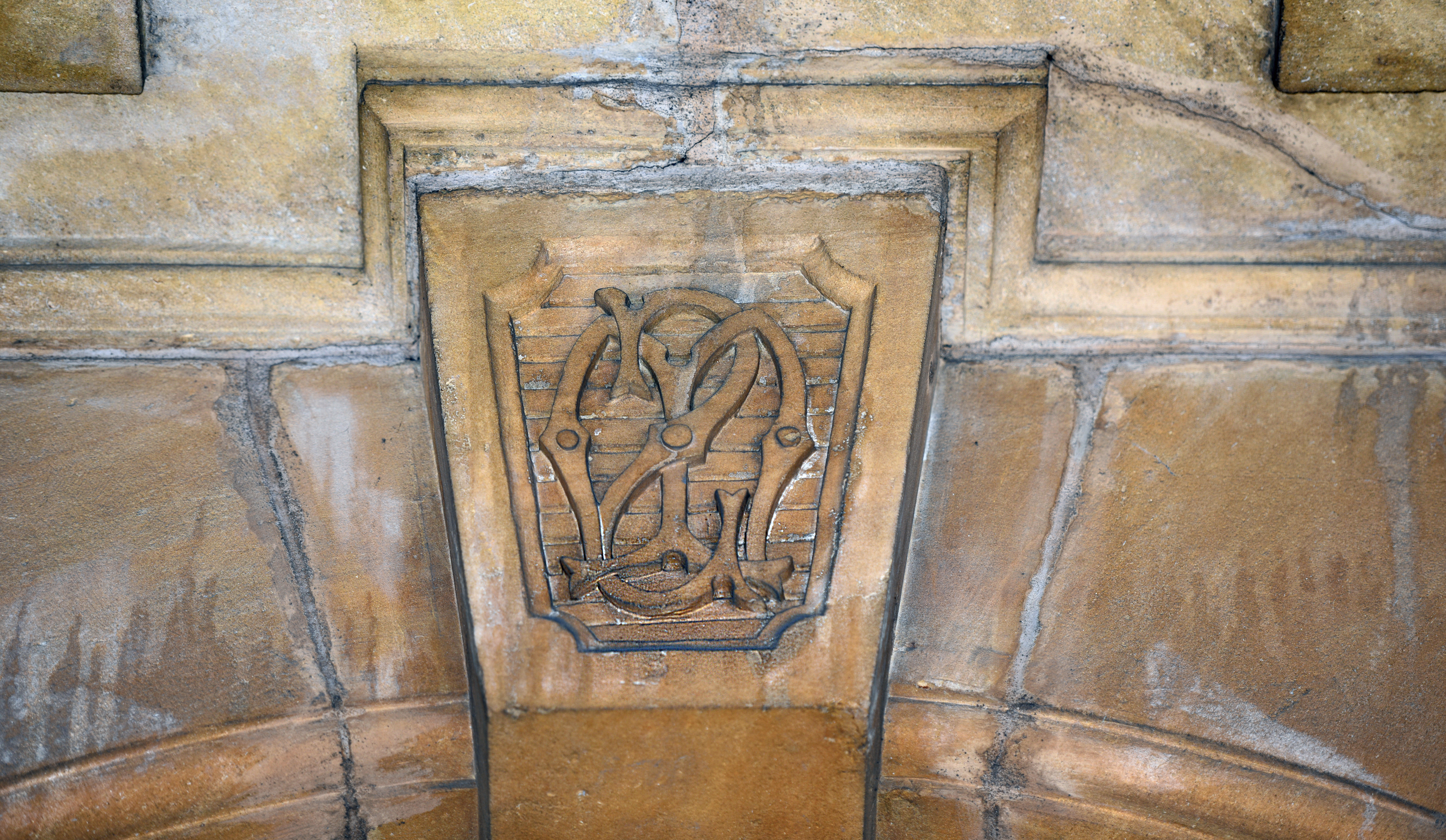 Luxembourg City, Émile Servais House, 59, boulevard Royal, detail.